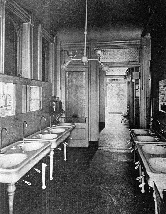 New Orleans, 1906: Surgeons' Lavatory, old Charity Hospital. Up to date sanitary hand washing sinks with knobs beneath the sinks controled by the doctors' legs. Note combination gas & electric lighting fixture.